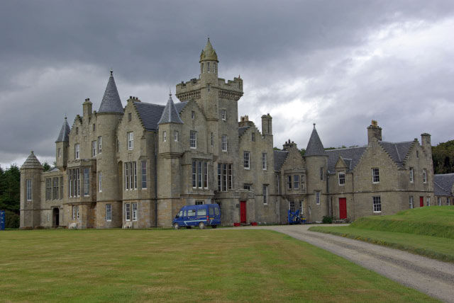 Balfour Castle From this view it can be seen how the house, designed by David Bryce in the Scottish baronial style, was grafted on to an older more traditional house. This would be an imposing affair anywhere but seems even more so on a small island in Orkney. The last of the Balfour line passed away in 1961 and the house was acquired by a wealthy Polish cavalry officer - Captain Zawadzki. His family ran it as a country house hotel for some years but it has recently been sold again; it is currently undergoing renovation work.